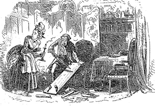 A Tale of Two Cities, 'The Accomplices, Mr Lorry and Miss Pross guiltily destroy Dr Manette's workbench, by Phiz.